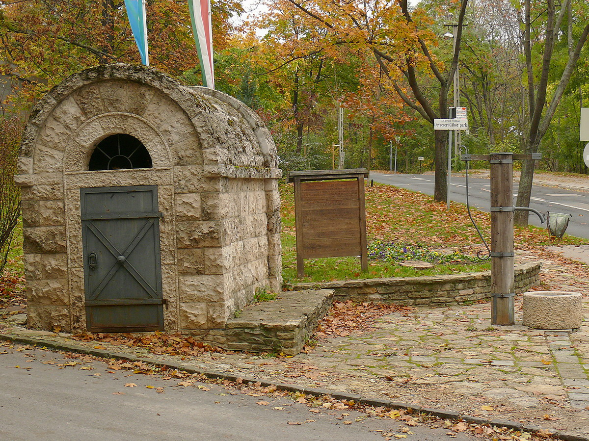 The lower well-house of the medieval water-conduit of Budapest